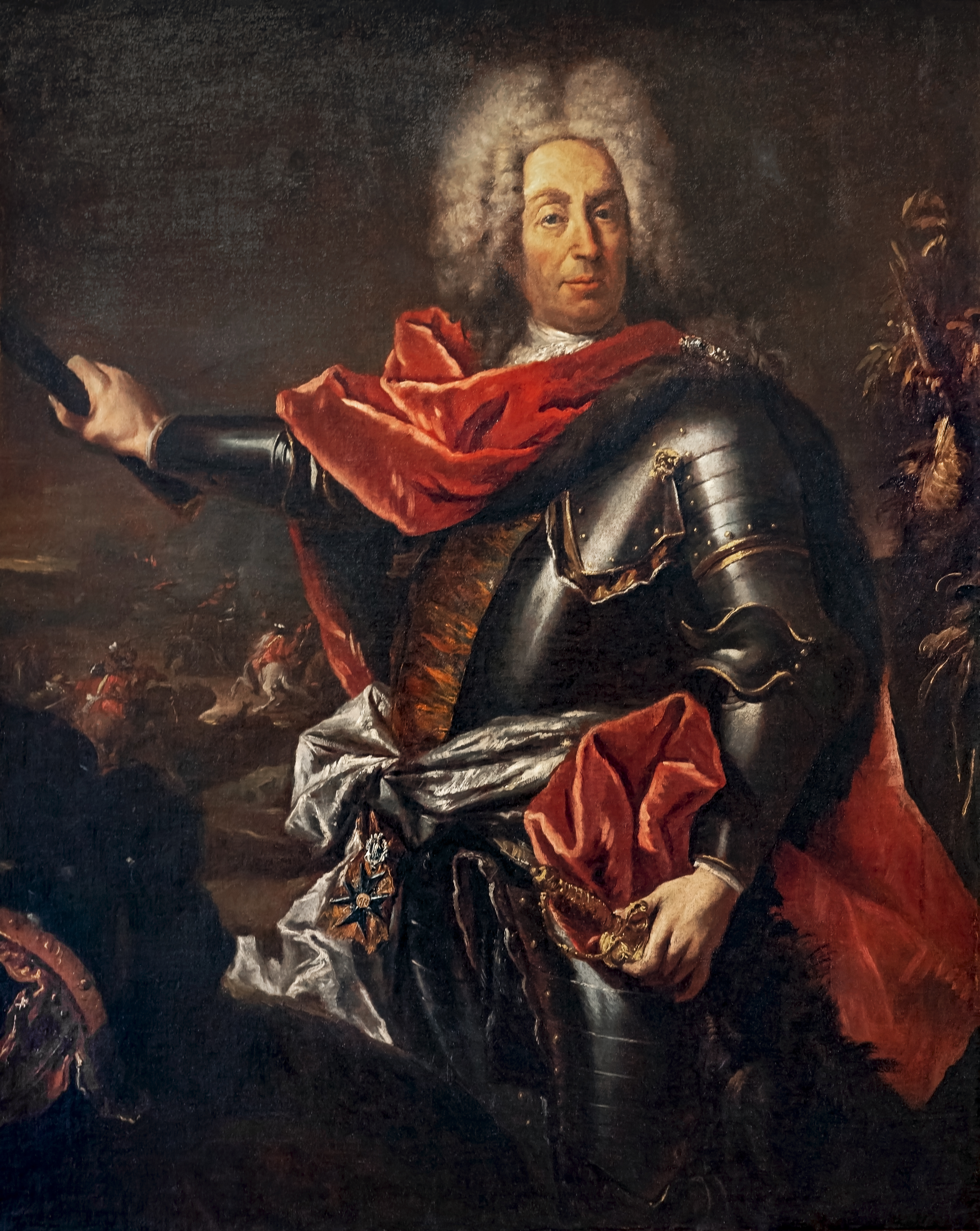 Depicted person: Johann Matthias von der Schulenburg – German art collector